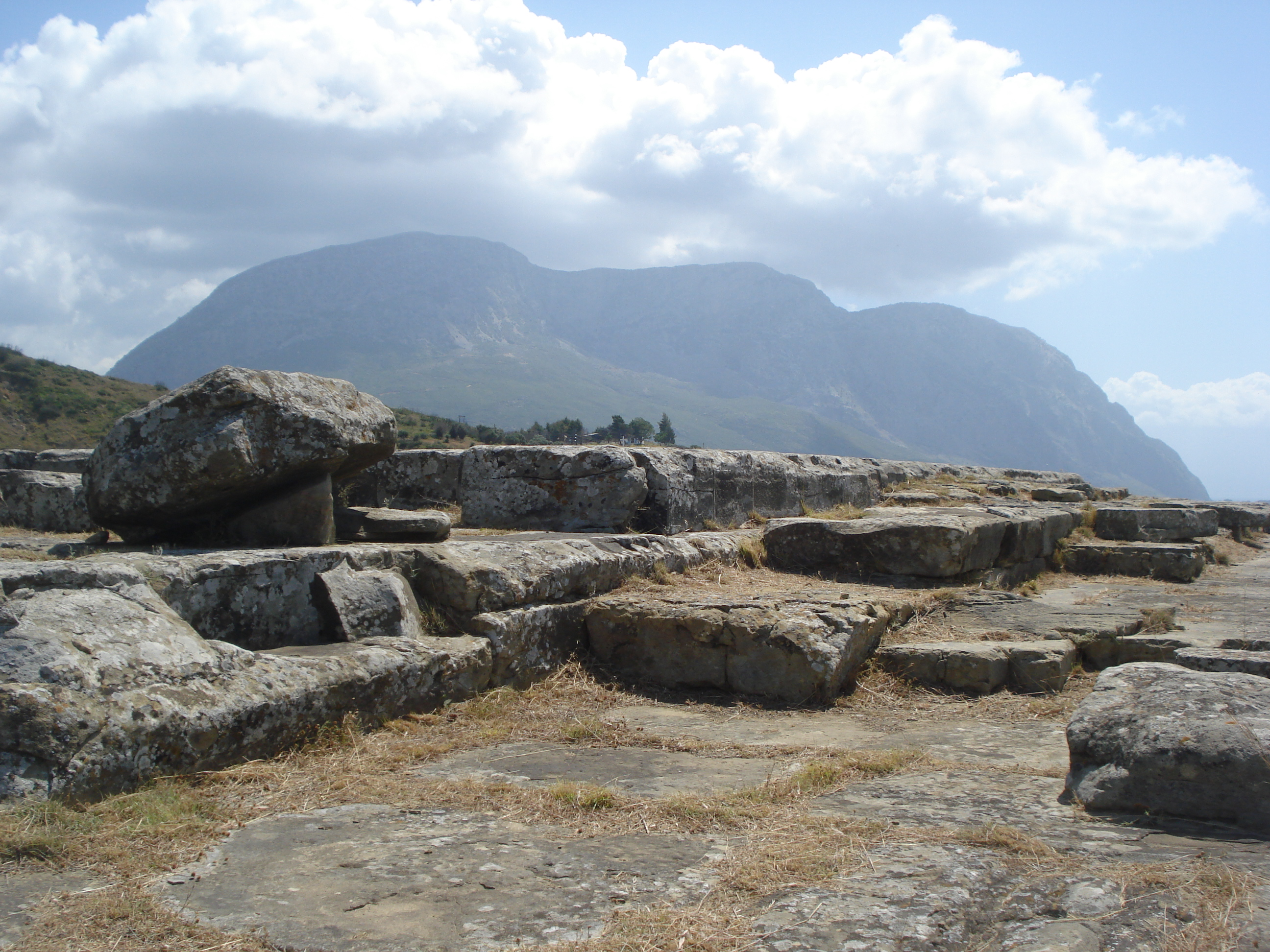 The acropolis of Kalydon